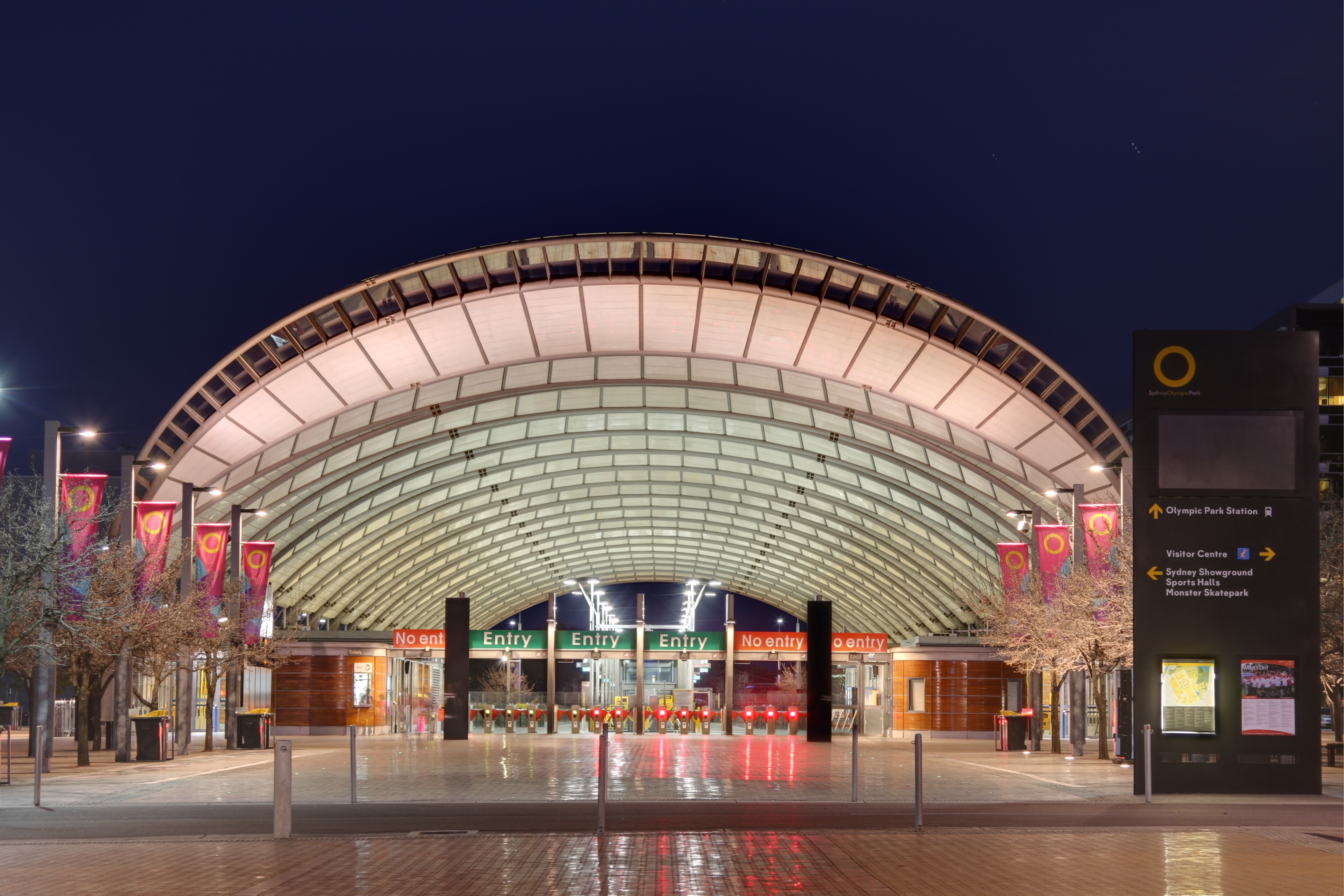 Olympic Park train station Sydney